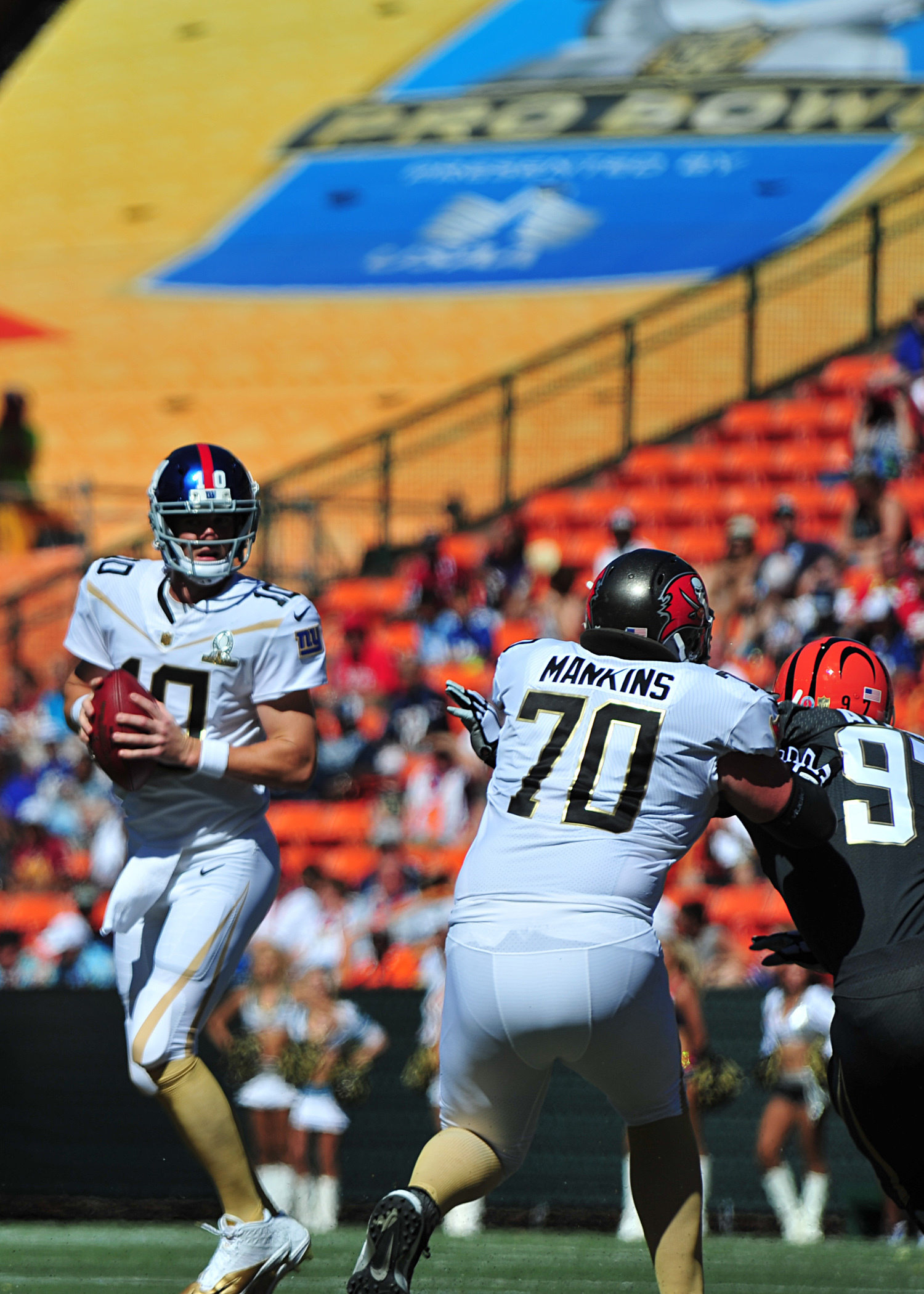 Eli Manning, Team Rice quarterback, scanned the field for an open receiver during the 2016 Pro Bowl at Aloha Stadium, Hawaii, Jan. 31, 2016. Service members from all branches of the military volunteered during the Pro Bowl in a range of jobs from stage assembly to parking. (U.S. Air Force photo by Tech. Sgt. Aaron Oelrich/Released)